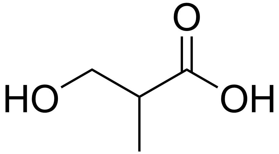 chemical structure of 3-hydroxyisobutyric acid (hydroxyisobutryate, 3-Hydroxy-2-methylpropanoic acid)